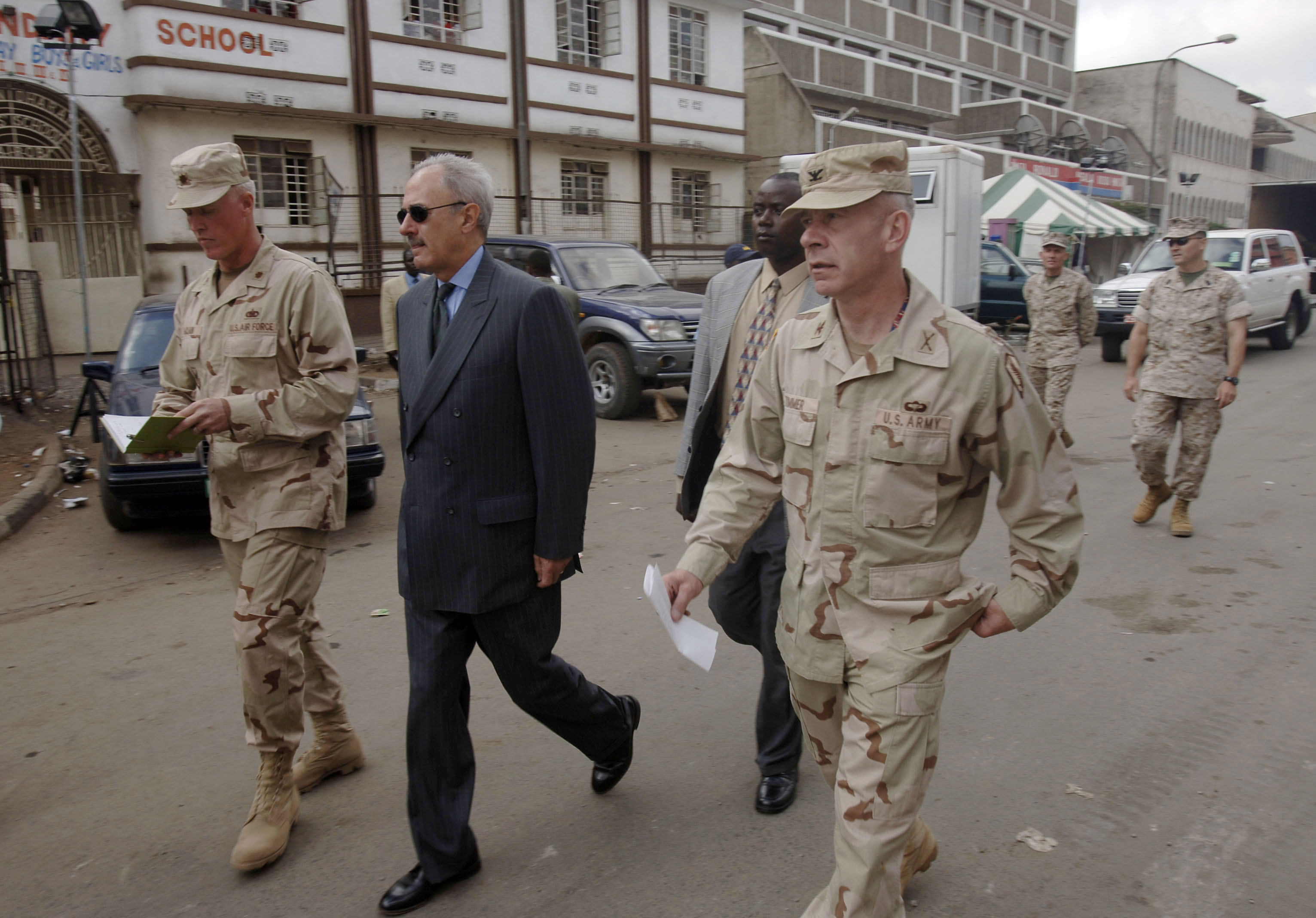 Nairobi, Kenya (Jan. 25, 2006) - U.S. Ambassador to Kenya, William Bellamy, center, is escorted by U.S. military personnel to view and discuss rescue and recovery efforts following a building collapse on Nairobi's Ronald Ngala Street Kenya, Africa, Jan. 24, 2006. The U.S. military is assisting Kenyan authorities in the rescue and recovery operations. U.S. Air Force photo by Staff Sgt. Ricky A. Bloom (RELEASED)